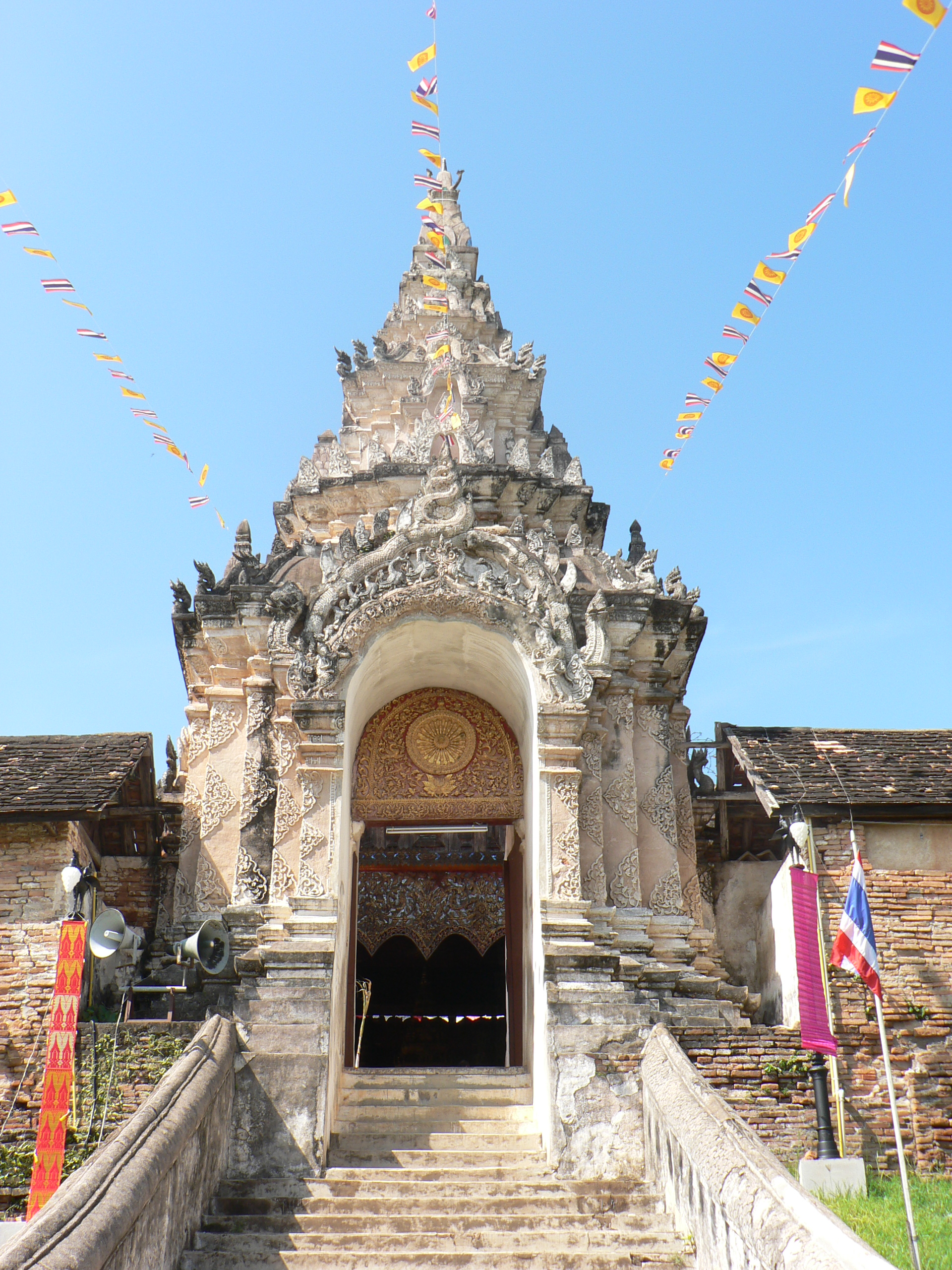 Wat Phrathat Lampang Luang, Lampang, Thailand